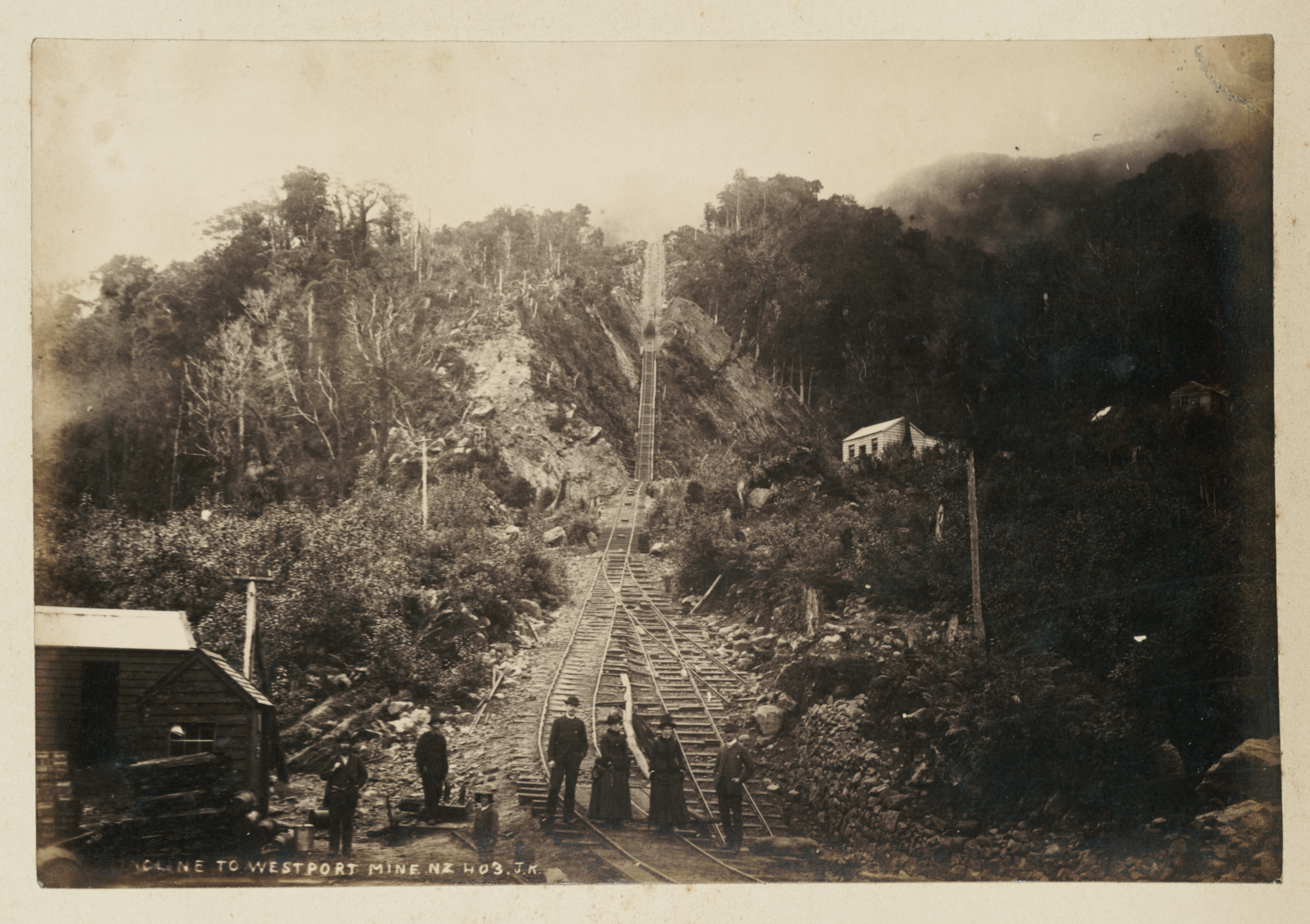 Photographer: James Ring (1856-1939)[1] Denniston Incline, ca 1880s-1890s Silver gelatin print, Reference No. PA1-o-435-50 Photographic Archive, Alexander Turnbull Library, National Library of New Zealand Find out more about this image from the Alexander Turnbull Library.